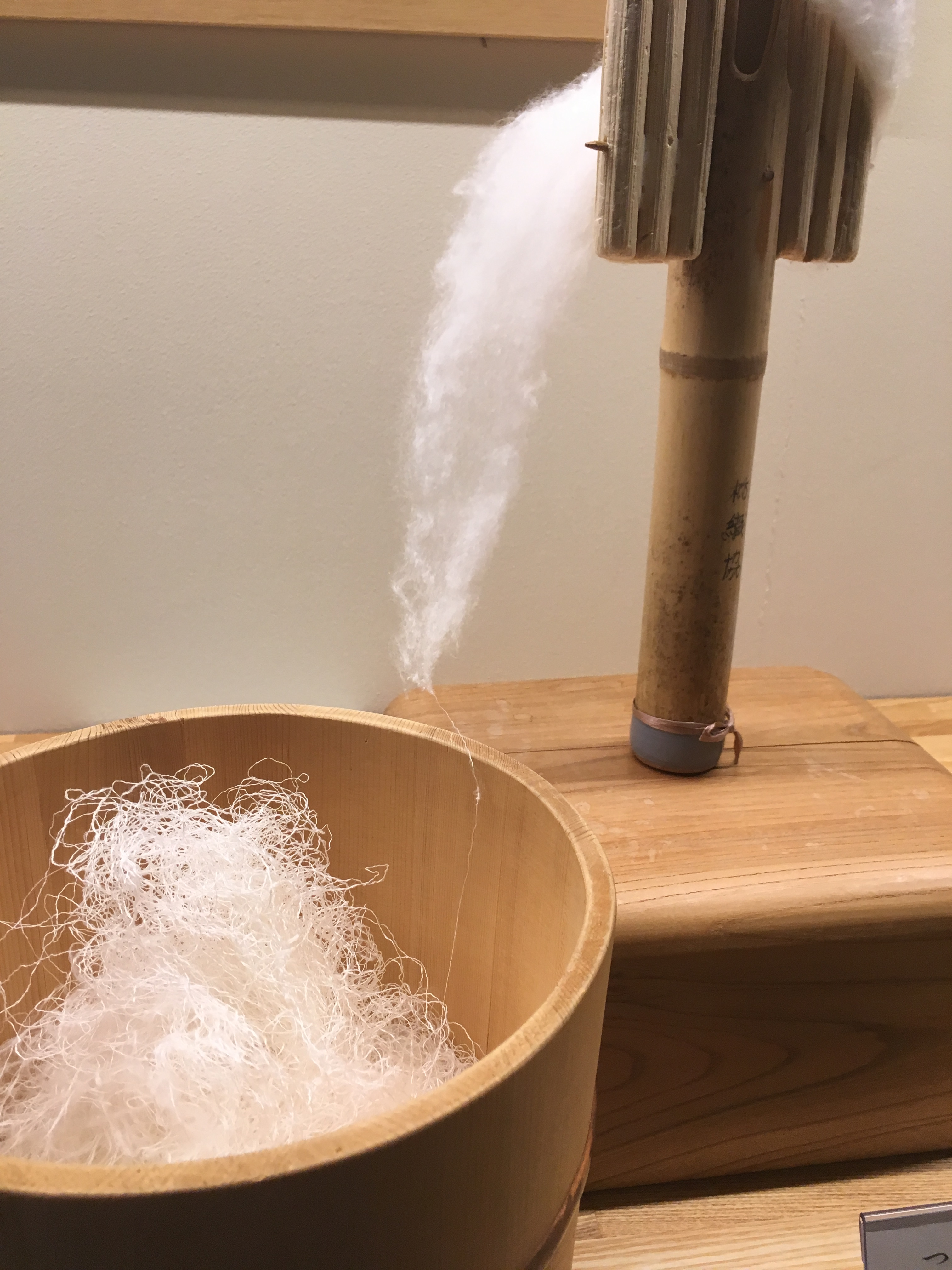 Spinning from silkworm cocoons for Yūki-tsumugi。In Oyama city, Japan.